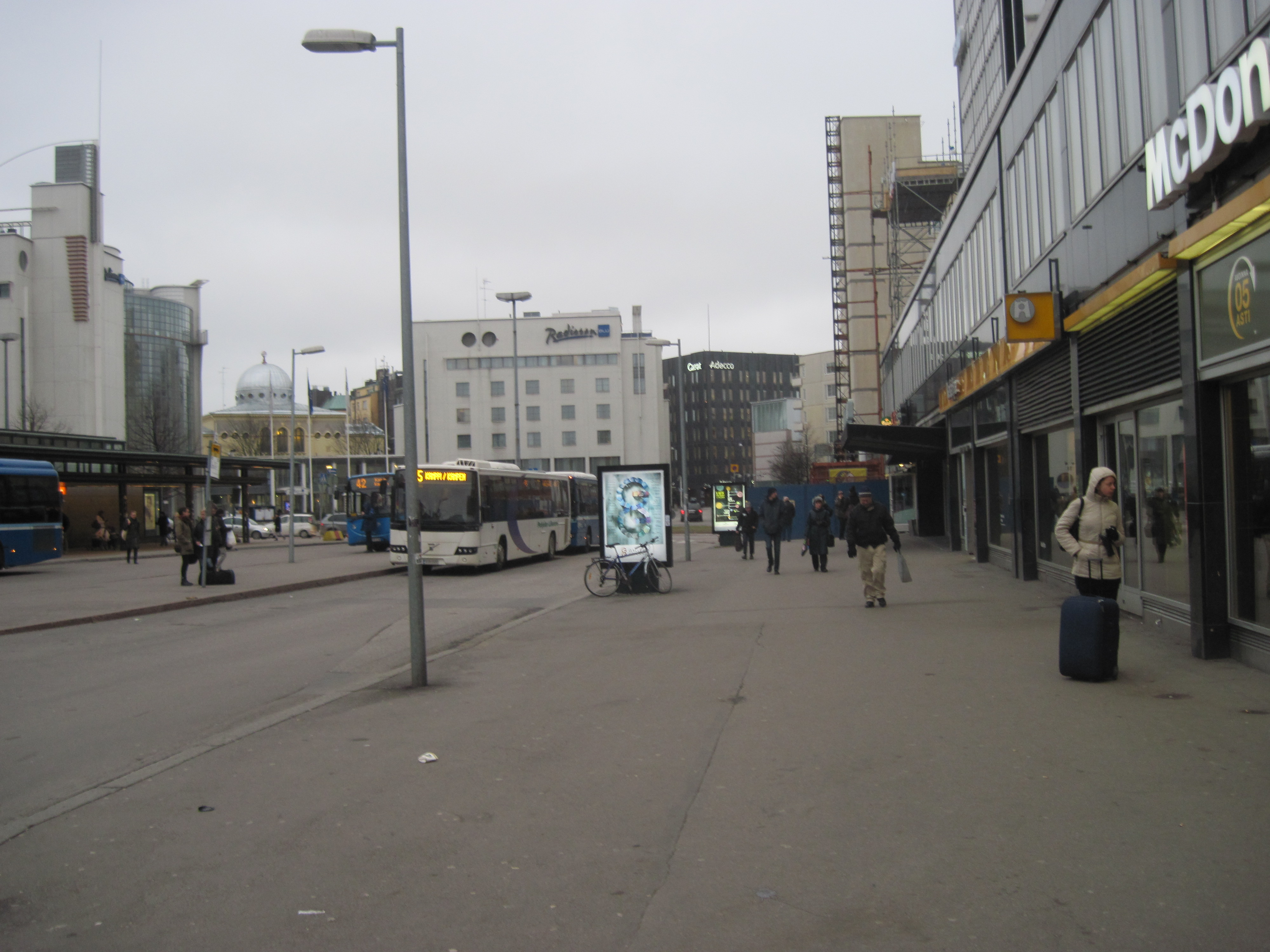 Westernmost part of Salomonkatu, Helsinki